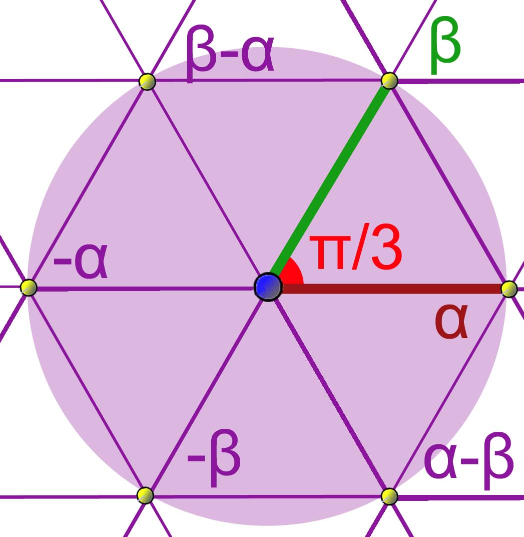 Exemple of a lattice, dimension 2 and hexagonal symetry